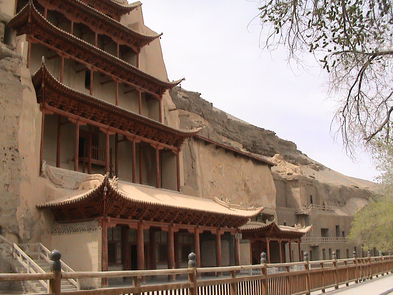 Mogao Caves This image was take by User:Yaohua2000 at 2006-04-24 07:01:05 UTC.